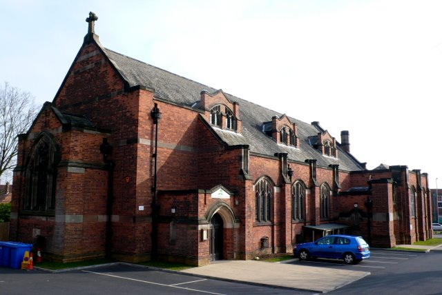 St Christopher's Church Woodlands Rd This church is St Christopher's Church located in Springfield, on the intersection of College Road and Springfield Road, just off the Stratford Road. They describe themselves as a fellowship of people from different backgrounds and cultures seeking to follow Jesus in their daily lives. It houses the Springfield Project an inter-faith community based children's organisation.